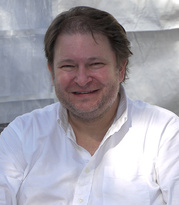 Rick Bragg at the 2008 Texas Book Festival, Austin, Texas, United States.